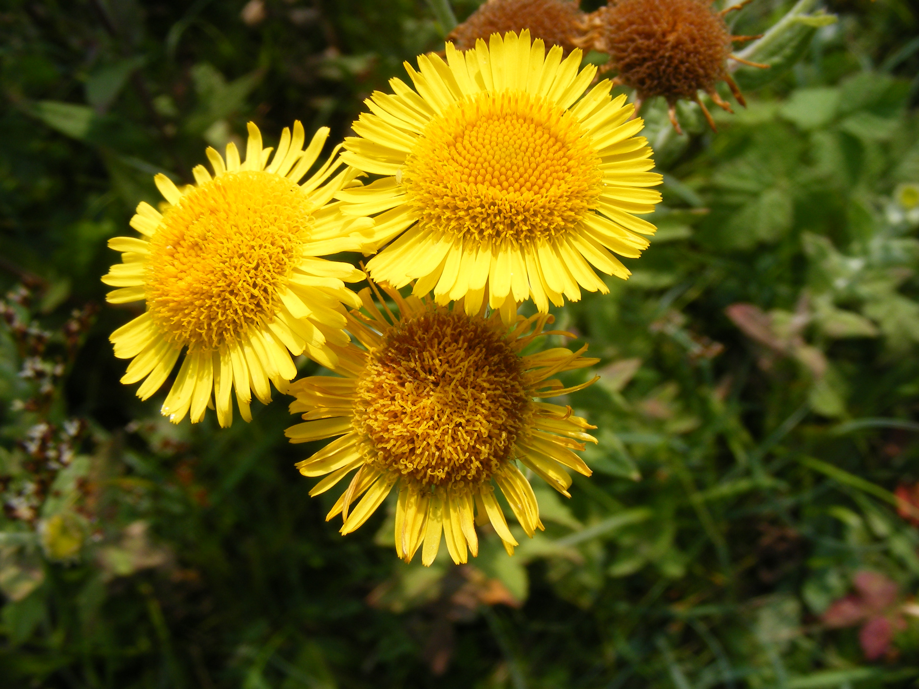 This photo shows Pulicaria dysenterica